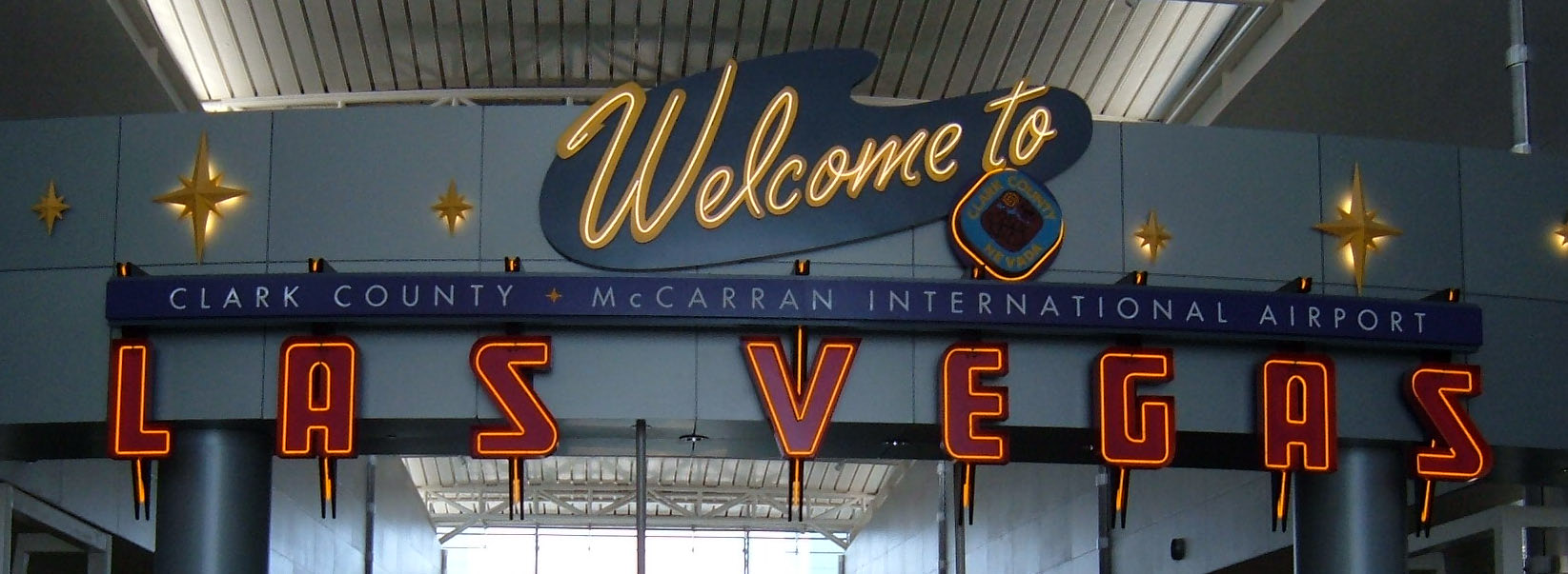 Welcome to McCarran airport sign in the D gate concourse.